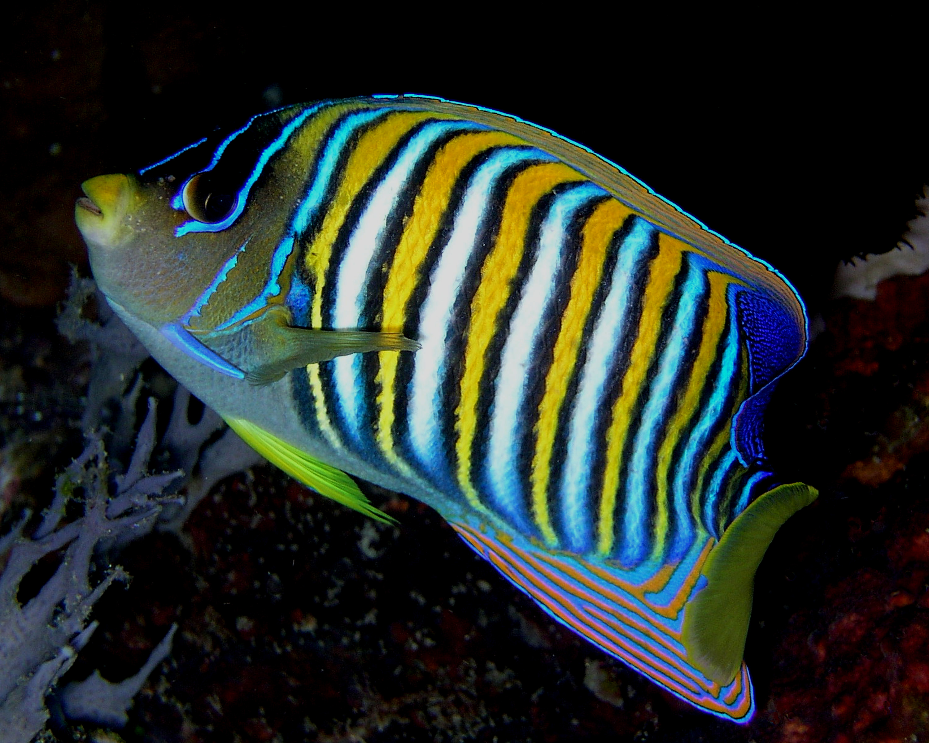 Angelfish, Pygoplites diacanthus